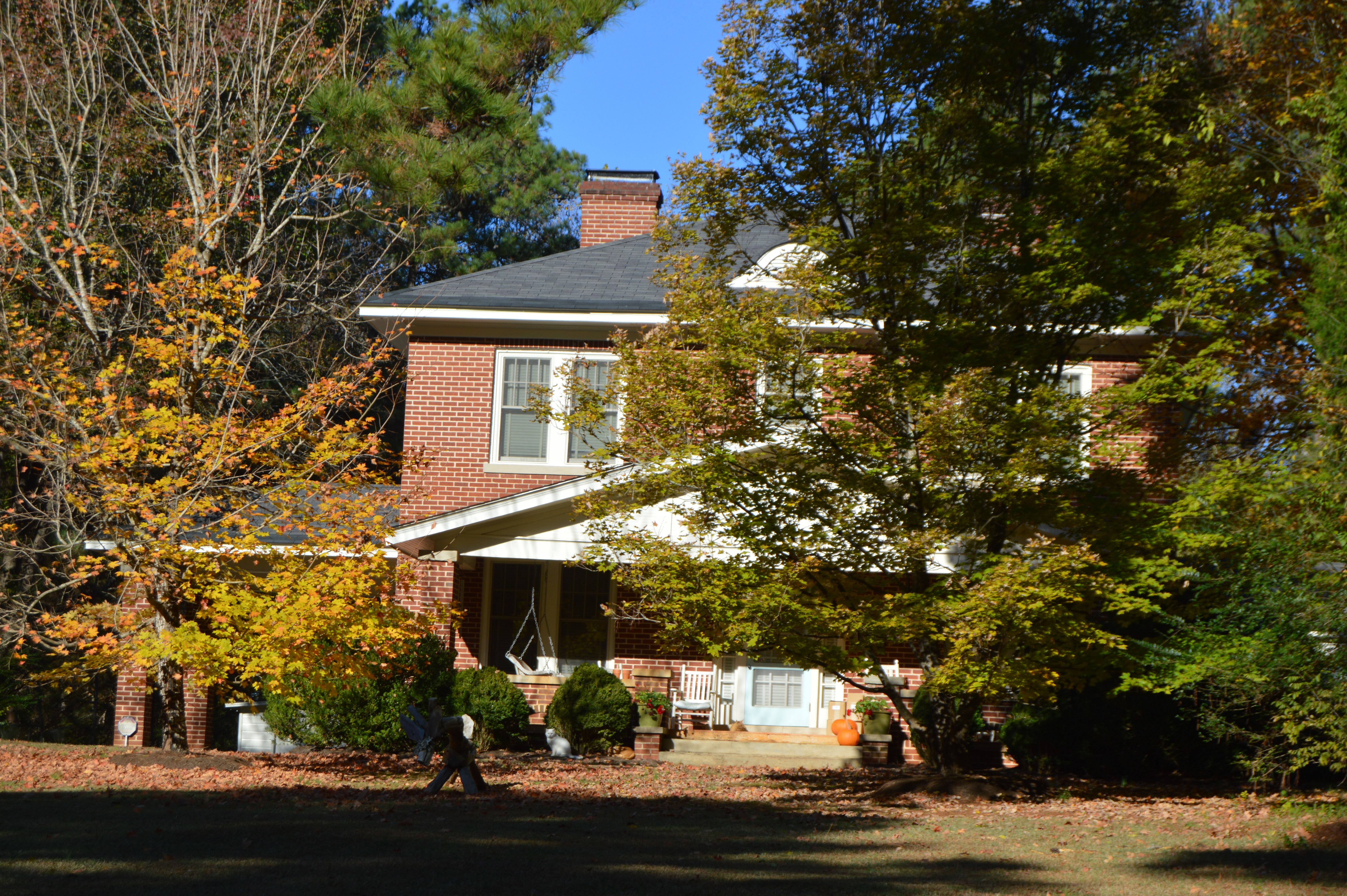 Front of the Robert Joseph Moore House, located on Bynum Road at Bynum in Chatham County, North Carolina, United States. Built in 1929, it is listed on the National Register of Historic Places.